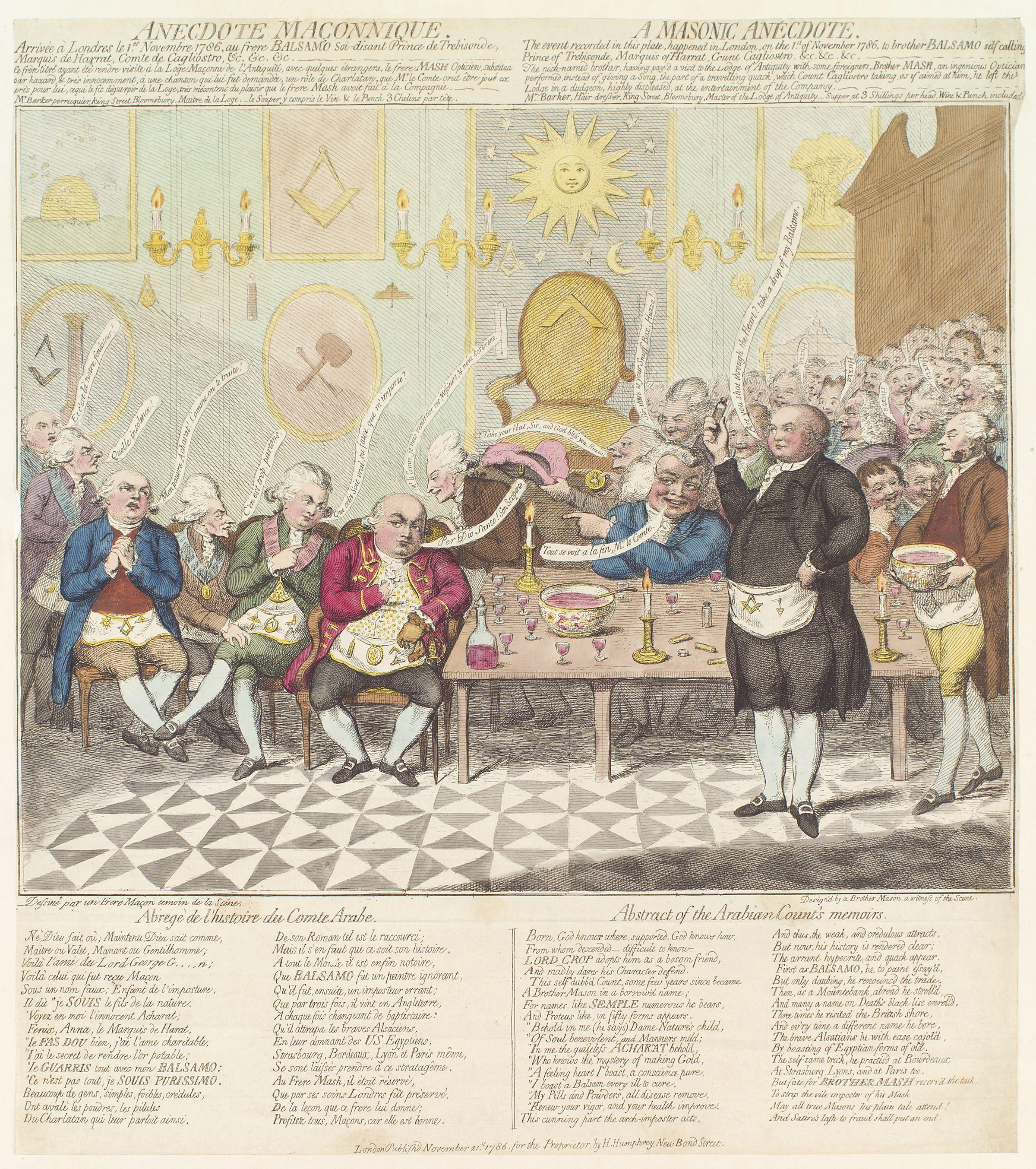 A Masonic anecdote' (Alessandro, Count of Cagliostro (Giuseppe Balsamo)), by James Gillray (died 1815), published 1786. All images in this batch have been confirmed as author died before 1939 according to the official death date listed by the NPG.